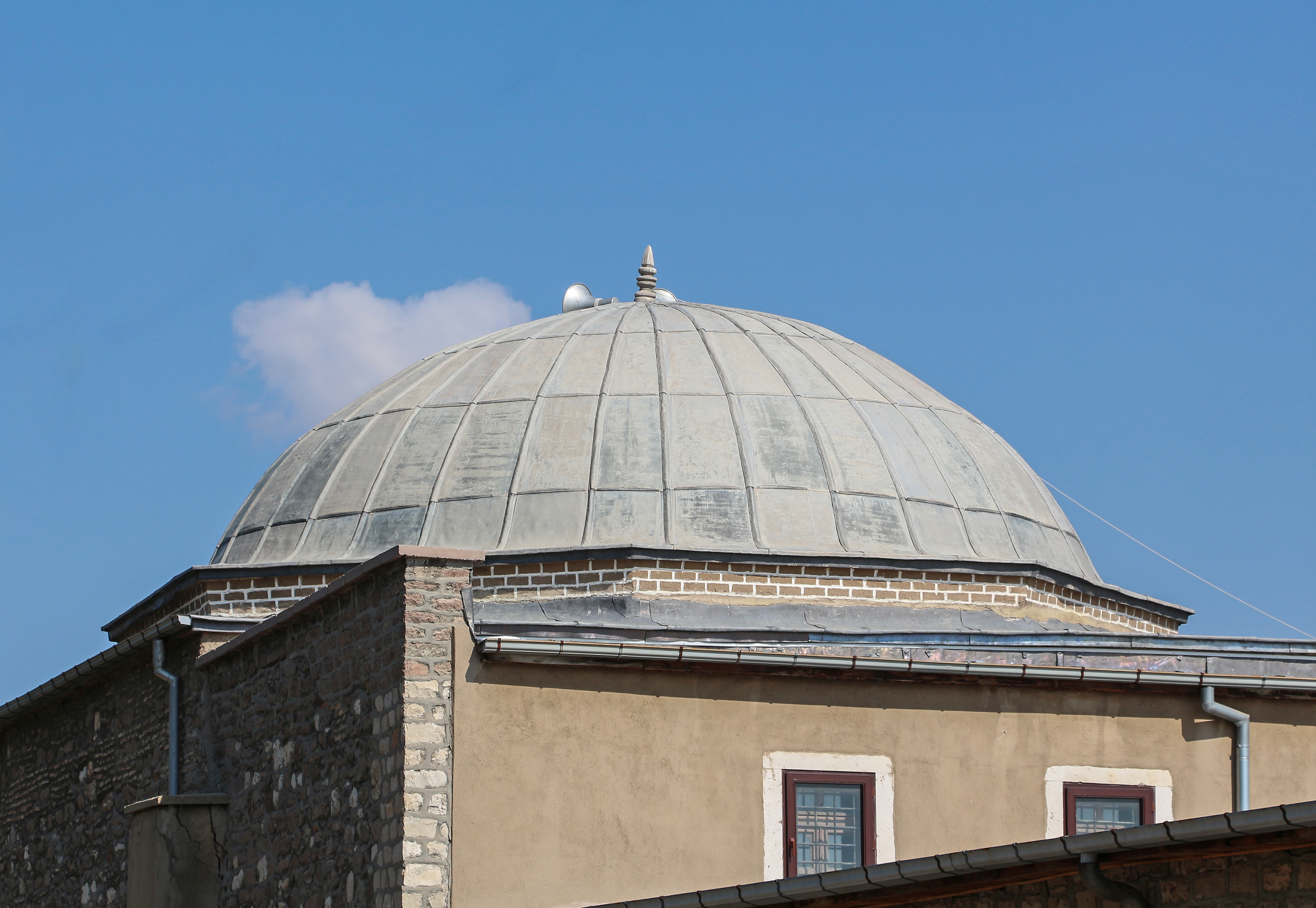 Dome of the Alâeddin Mosque, Konya, Turkey